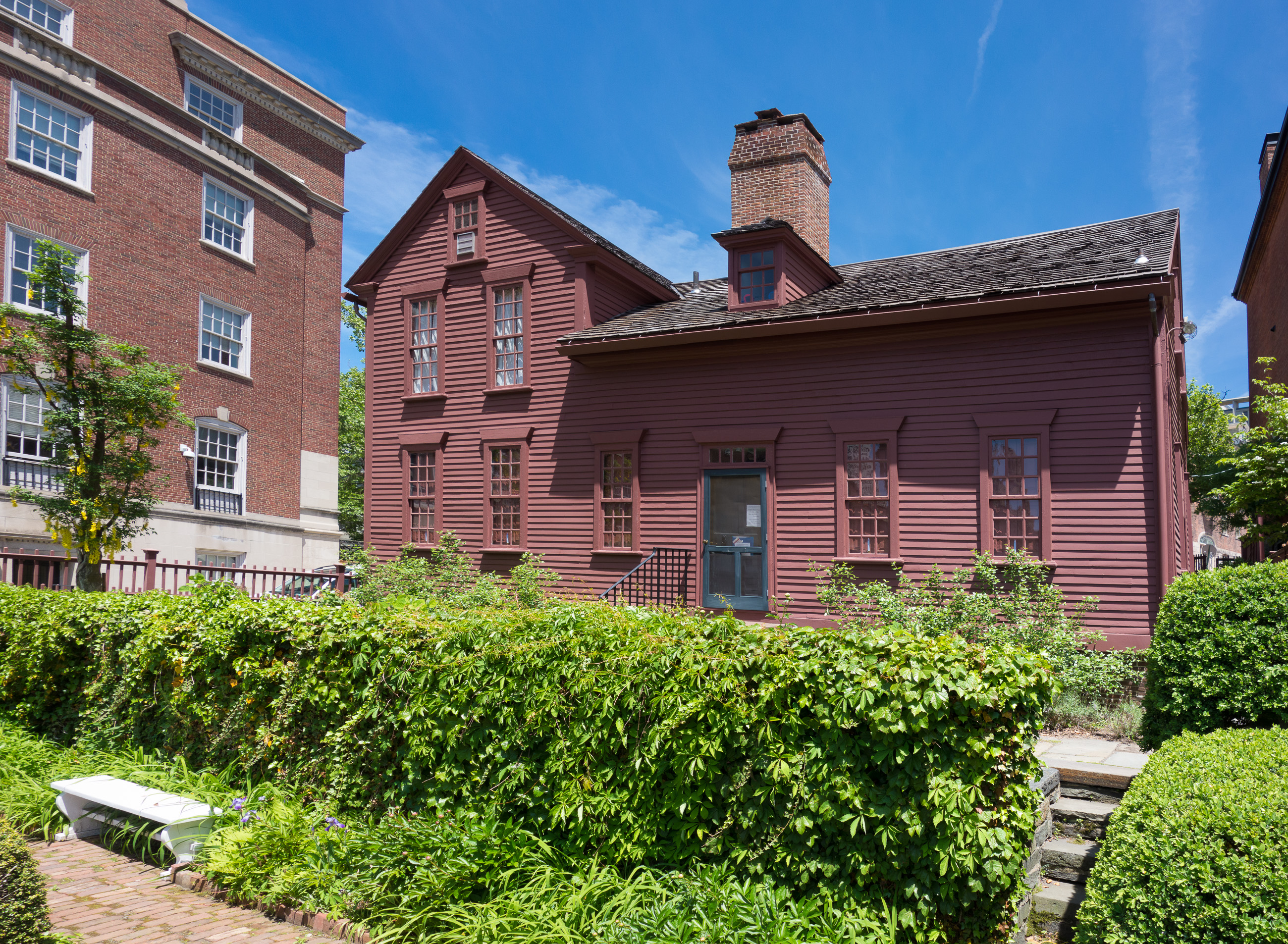 Stephen Hopkins House, Providence, RI.